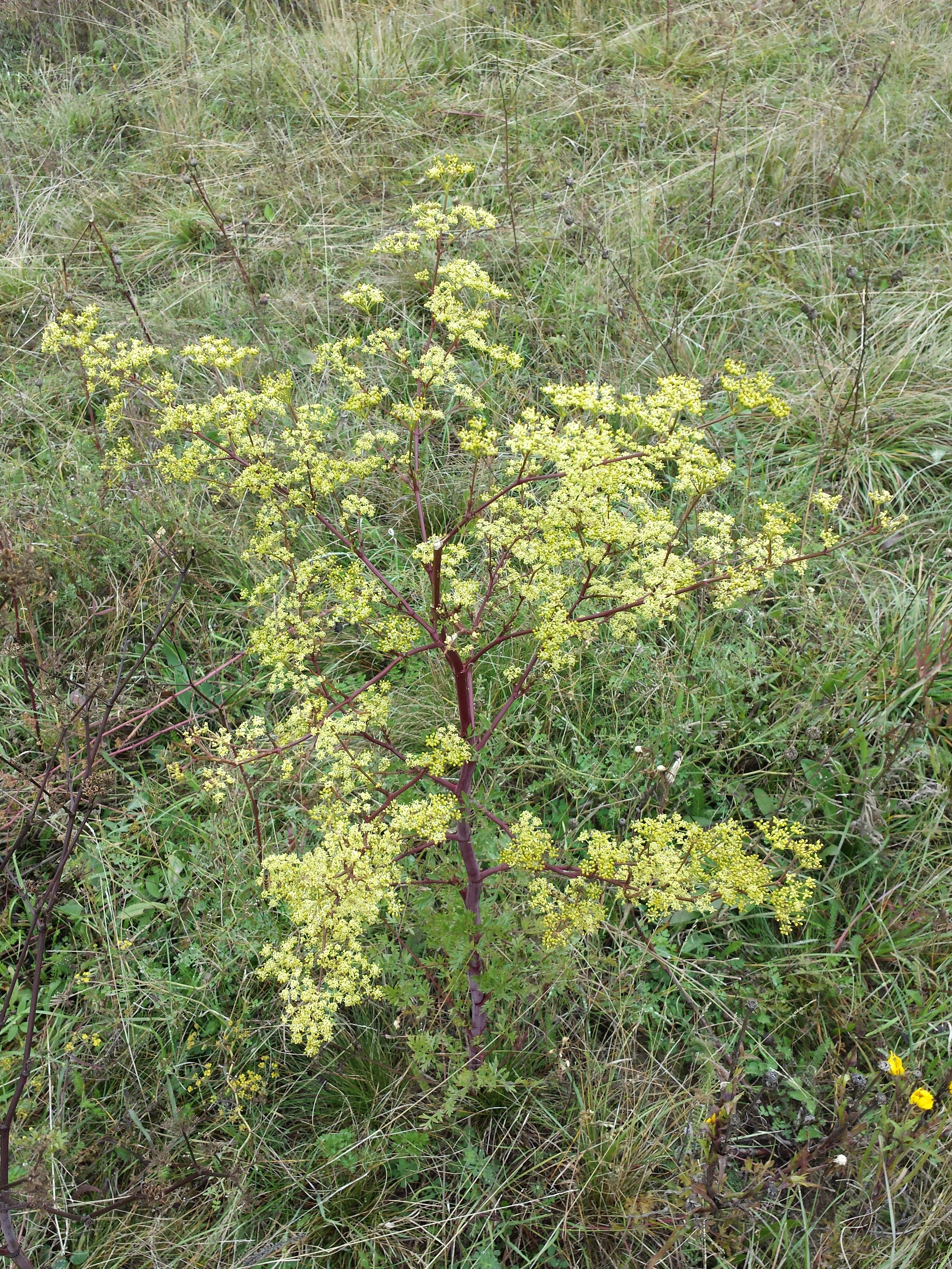 Habitus Taxon: Peucedanum alsaticum (sensu Fischer et al. EfÖLS 2008) Location: Wartberg near Riedenthal/Ulrichskirchen, district Mistelbach, Lower Austria - ca. 200 m a.s.l. Habitat: wayside within wineyards